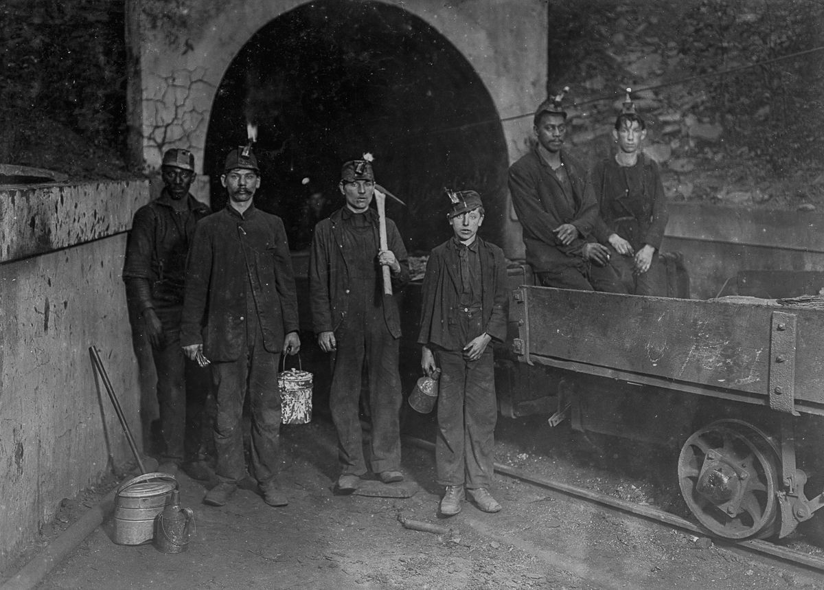 1908. Mine workers. Gary, West Virginia.